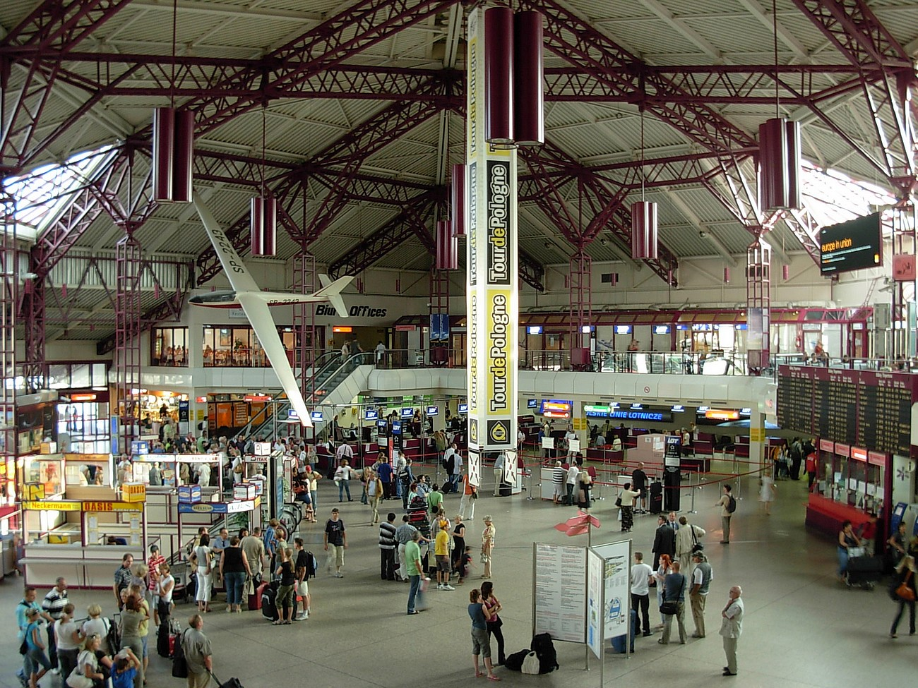 Poland, Warsaw, Airport Okecie, Terminal 1